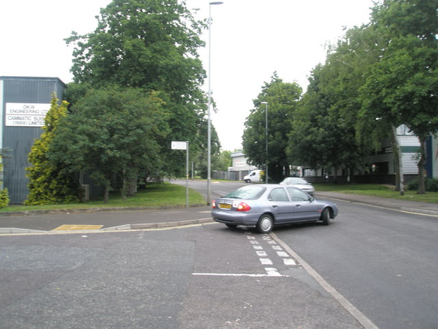 Learner driver practising reversing in Quatremaine Road